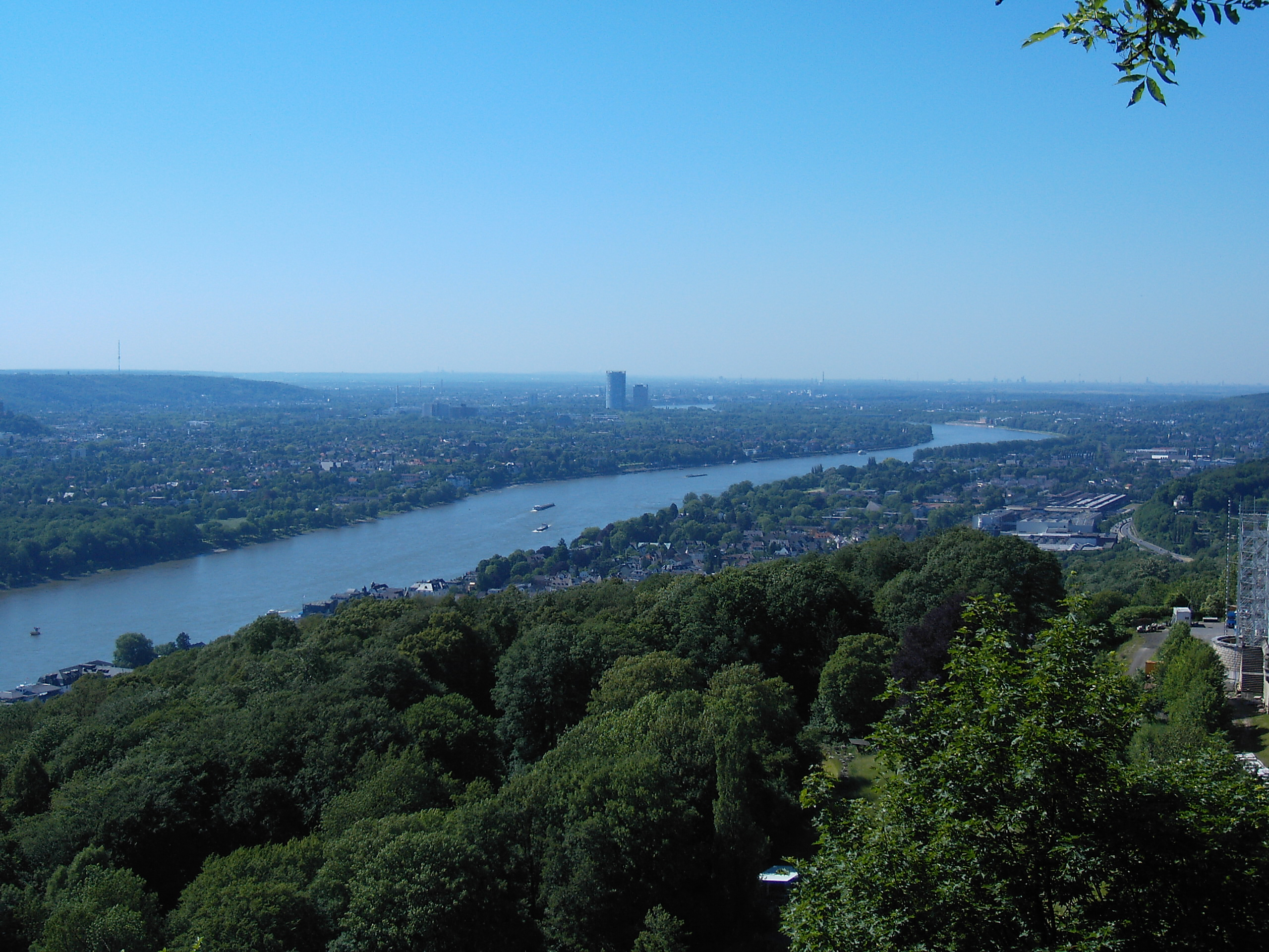 Bonn seen from the Drachenfels (“Dragon's Rock”). On the left the Venusberg with the transmitter of the Westgerman Broadcasting Company can be seen, in the middle the Post Tower and Langer Eugen. In the fareground Königswinter, in the background on the right the shadowy contours of Cologne higrises.